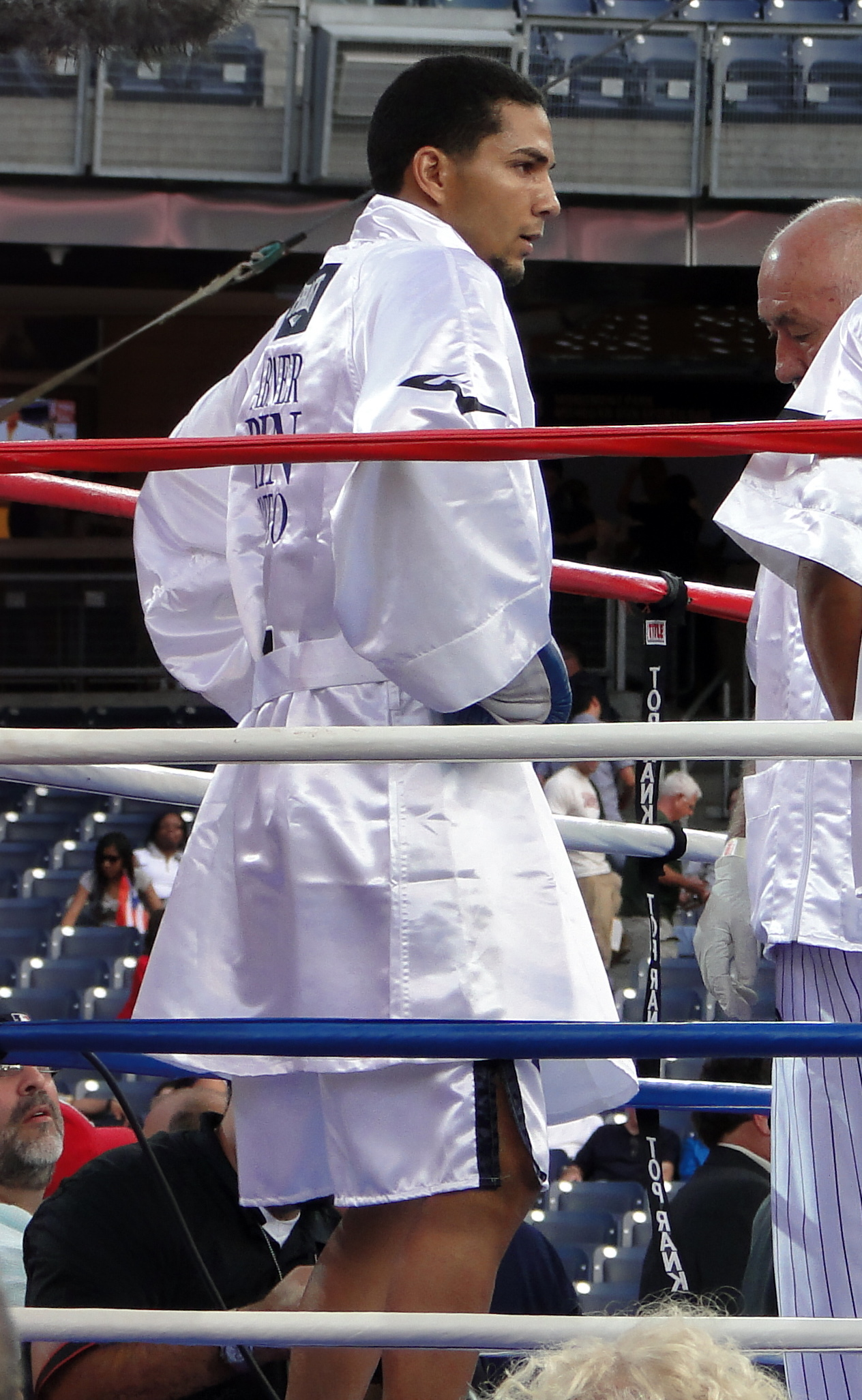 Abner Cotto before the fight against Edgar Portillo at the Yankee Stadium on June 5, 2010.